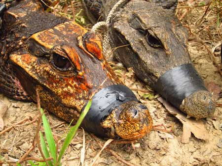 Orange cave-dwelling dwarf crocodile from Gabon next to a regular dwarf crocodile